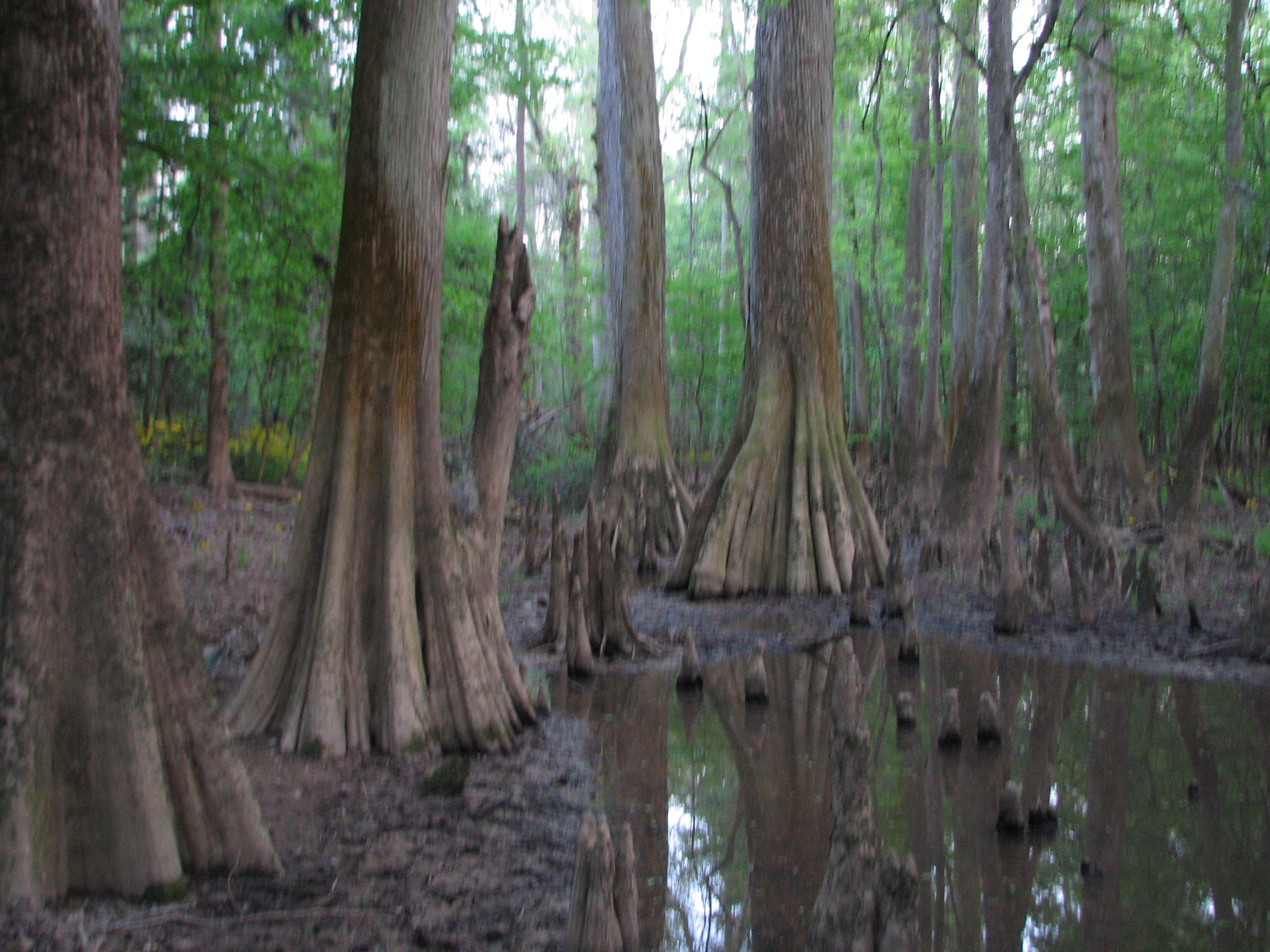 Bald Cypress (Taxodium distichum) in Congaree National Park, South Carolina.